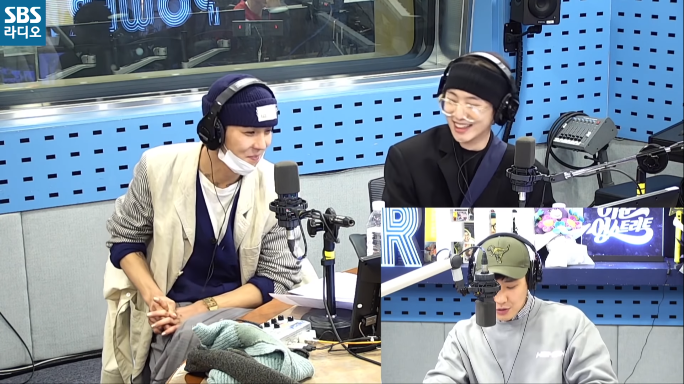 Mino and Seungyoon on SBS Youngstreet Radio for "Remember" promotions